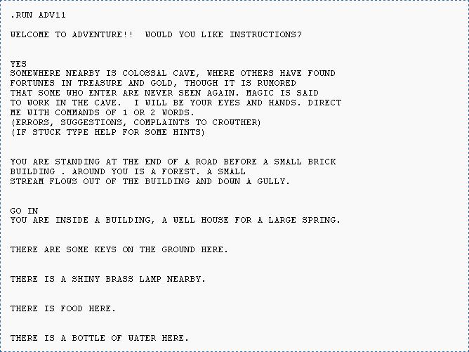 Print terminal output of Will Crowther's original Colossal Cave Adventure aka ADVENT (1975-76), running on a PDP-10. See Jerz, Digital Humanities Quarterly 1.1 (2007).